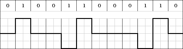 AMI digital signal coding illustration